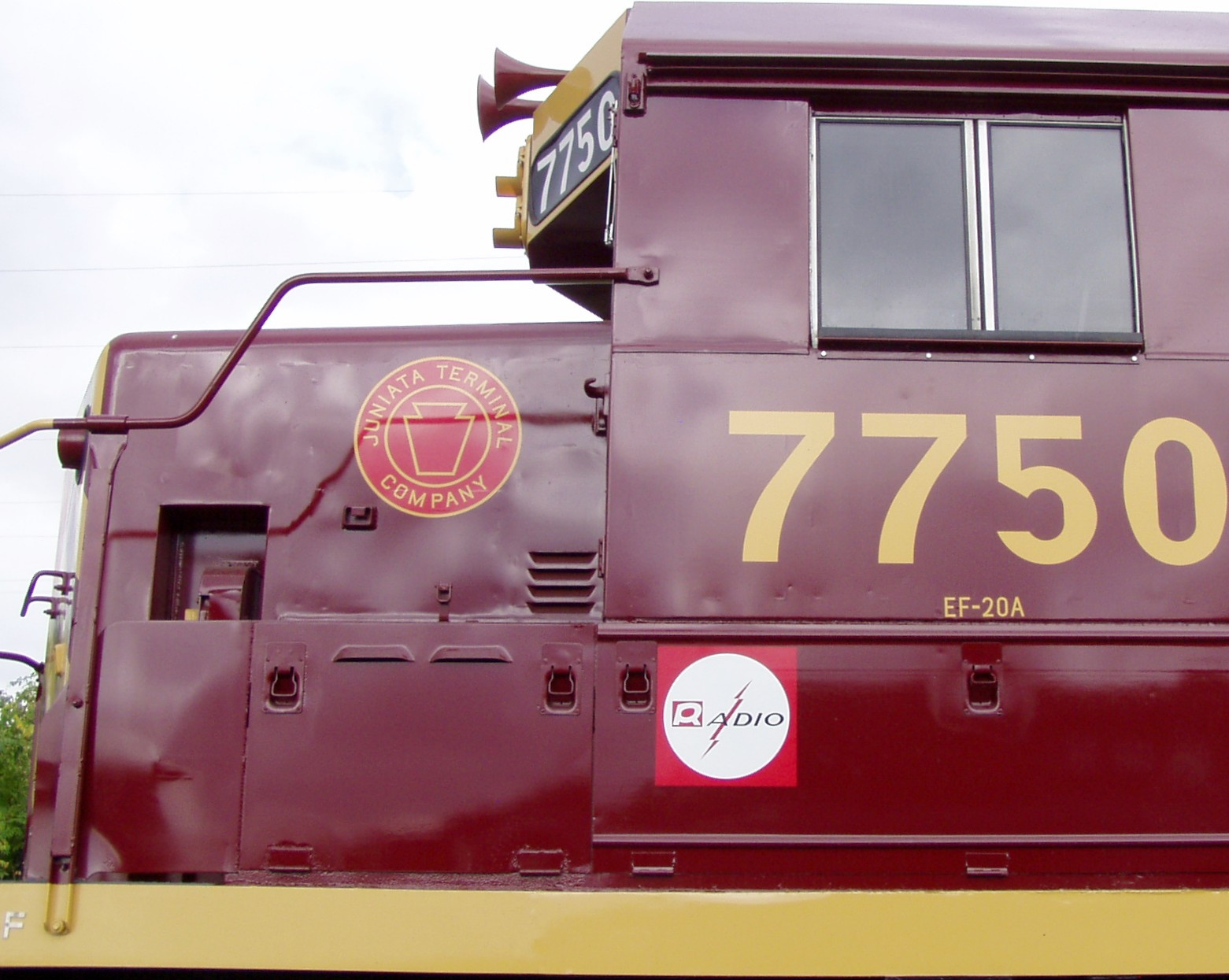 Closeup of Juniata Terminal Company locomotive 7750, a model EMD GP38.